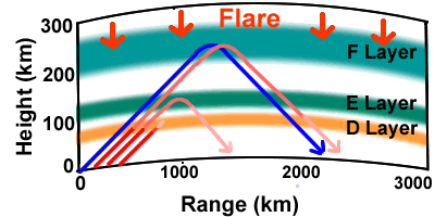 Ray diagram showing some effects of solar flares and CMEs (Coronal mass ejection, red raytraces) compared to a normal, quiet situation (blue raytrace). Electron densities are increased in all layers, as indicated by the darker colors compared to the other raytrace diagrams. This can cause increased D layer absorption (as indicated by duller red color for first red ray), unusual E layer refraction (next red ray) or total loss of signal due to enhanced D layer absorption (last red ray).